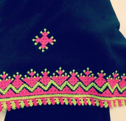 balochi doozi